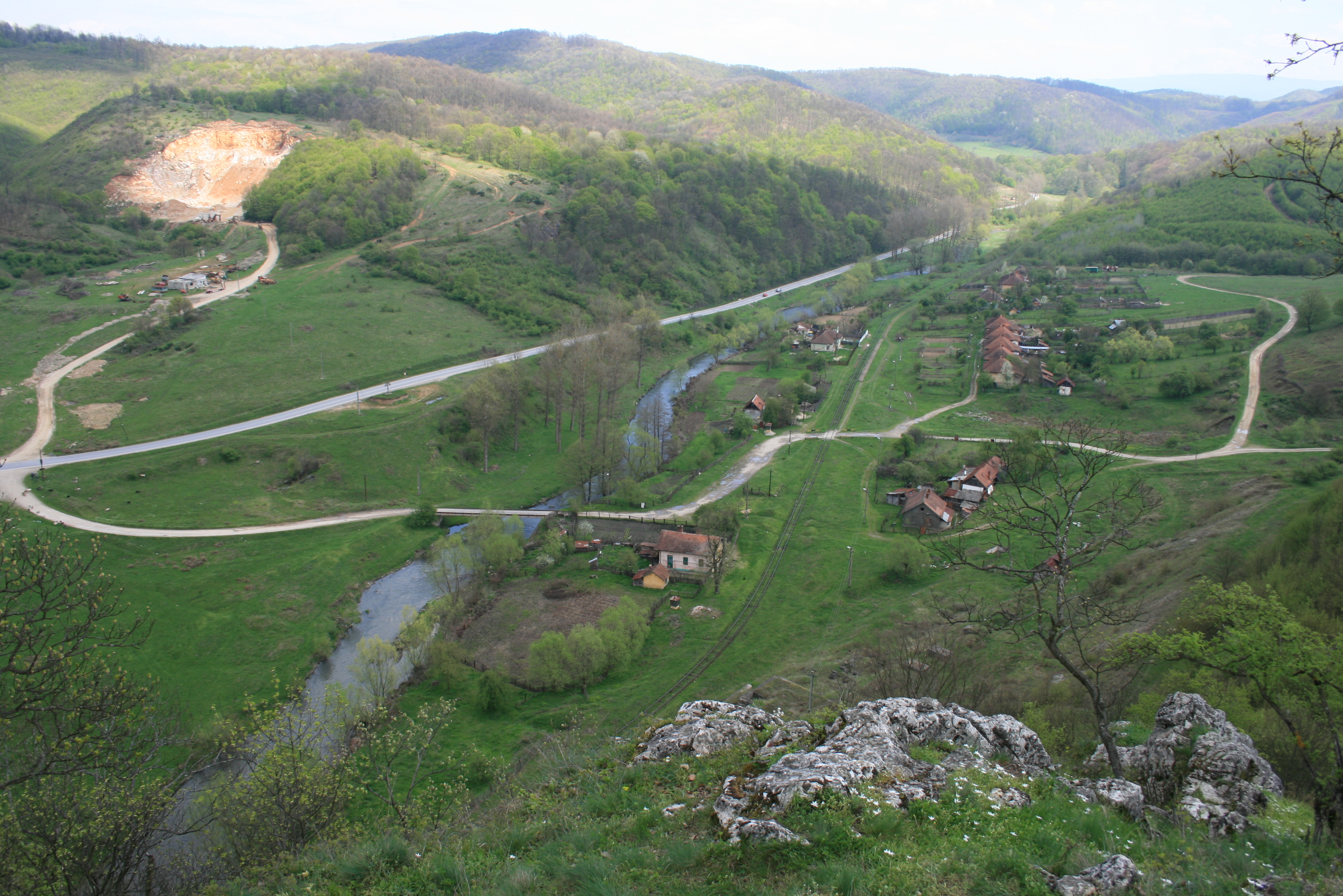 View from Coltan